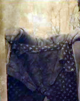 Clothing of an unidentified homicide victim found in Maury County, TN..